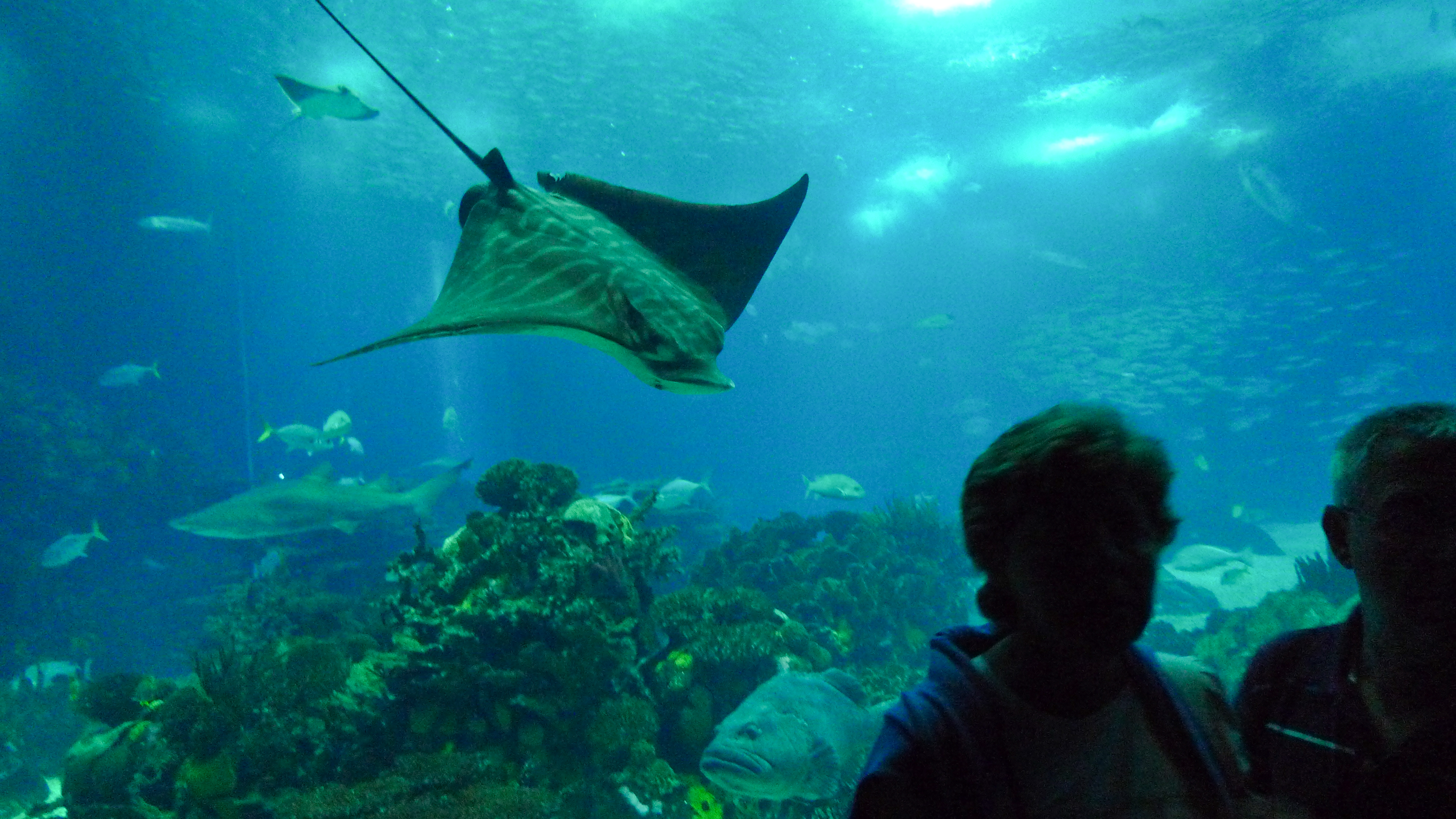 Manta ray dive bomber